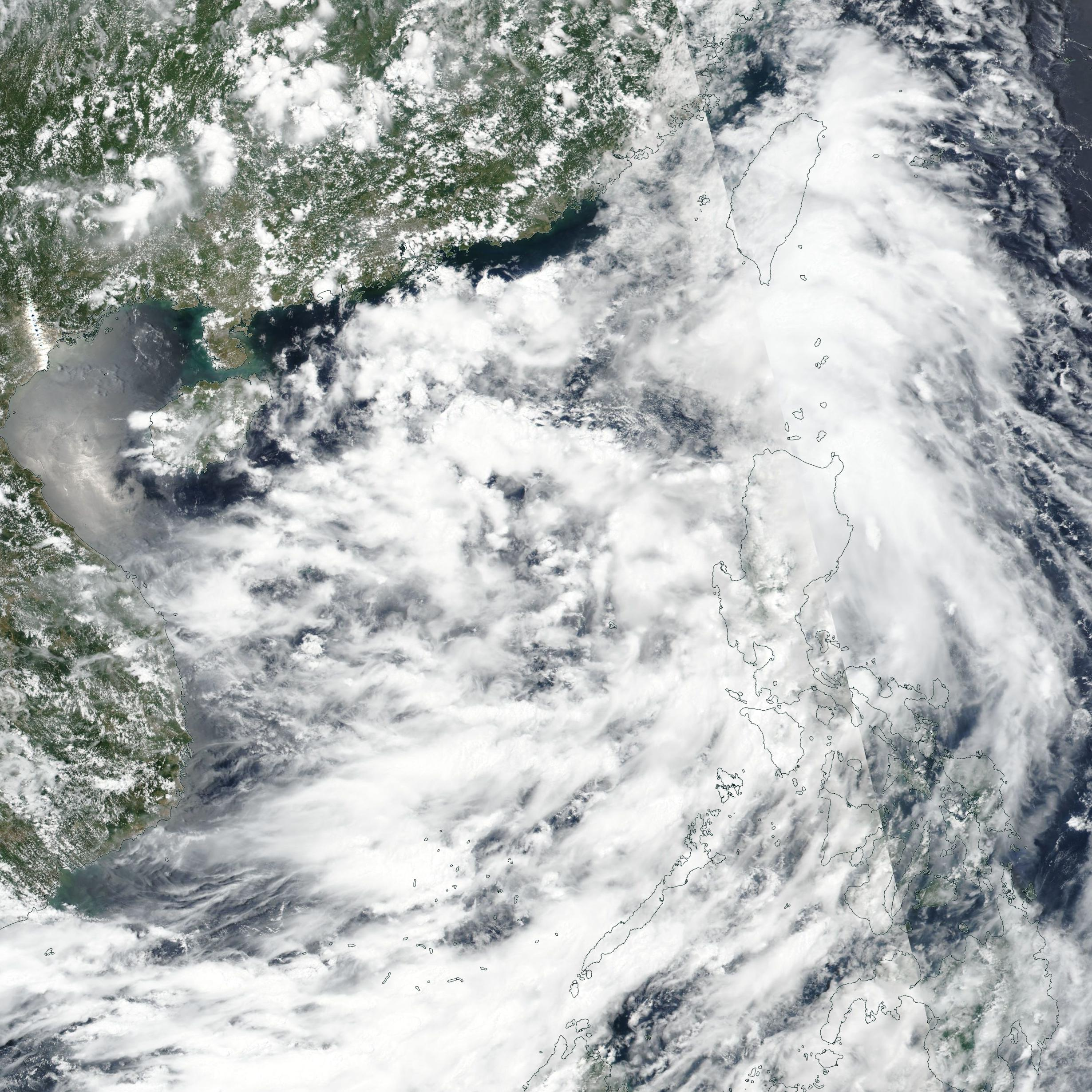 Tropical Depression "A" on July 31, 2020. The system is shown here, struggling to consolidate with an exposed low-level circulation center and scattered thunderstorms.